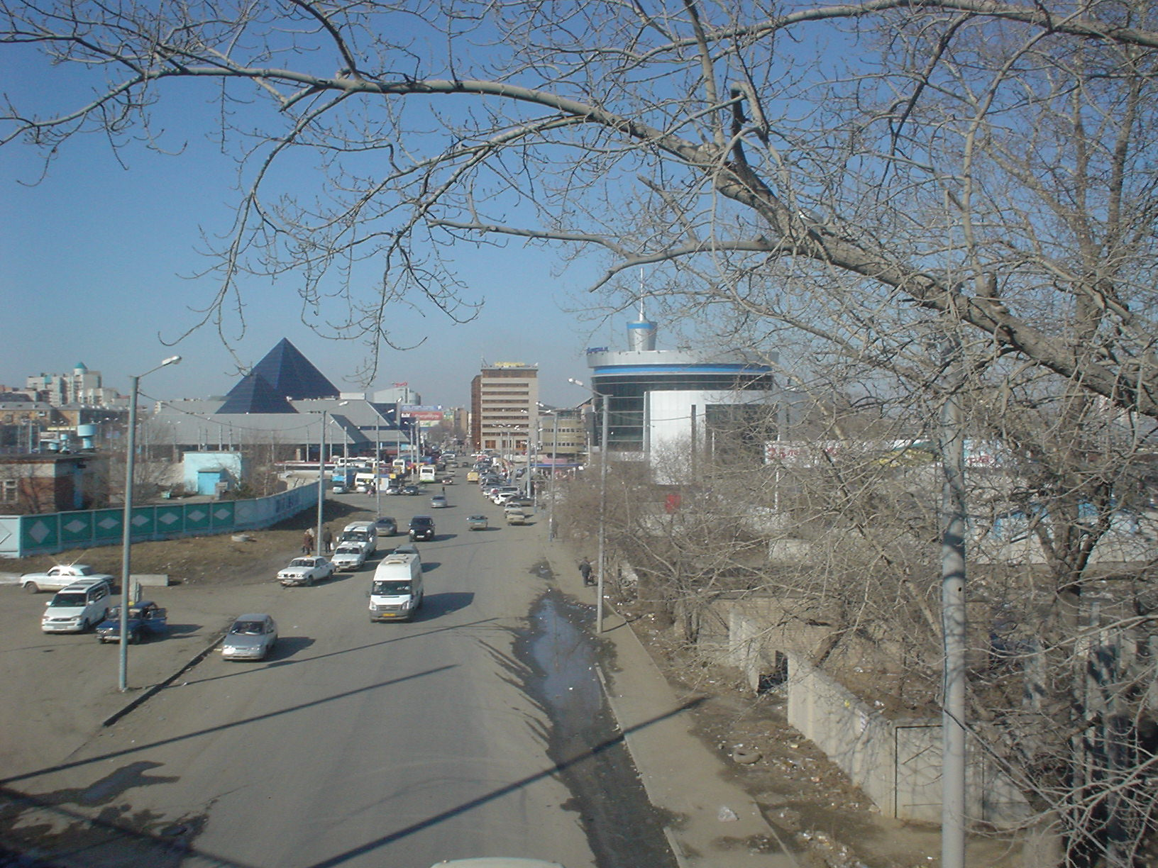 Privokzalnaya square, 2010, Chelyabinsk, Russia. View from the south.